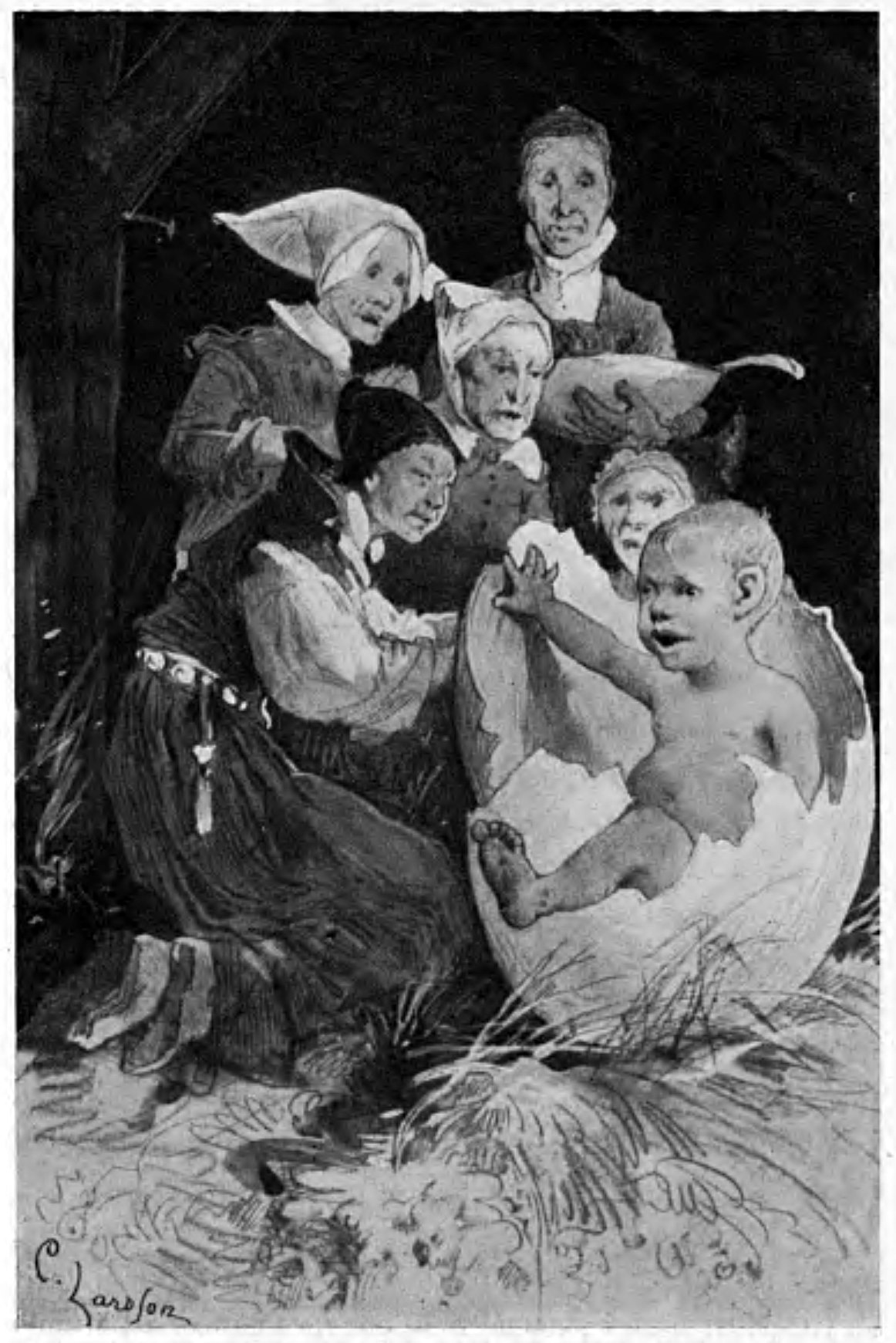 Illustration by Carl Larsson of the book "Folksagor" by Asbjörnsen and Moe, Stockholm 1927